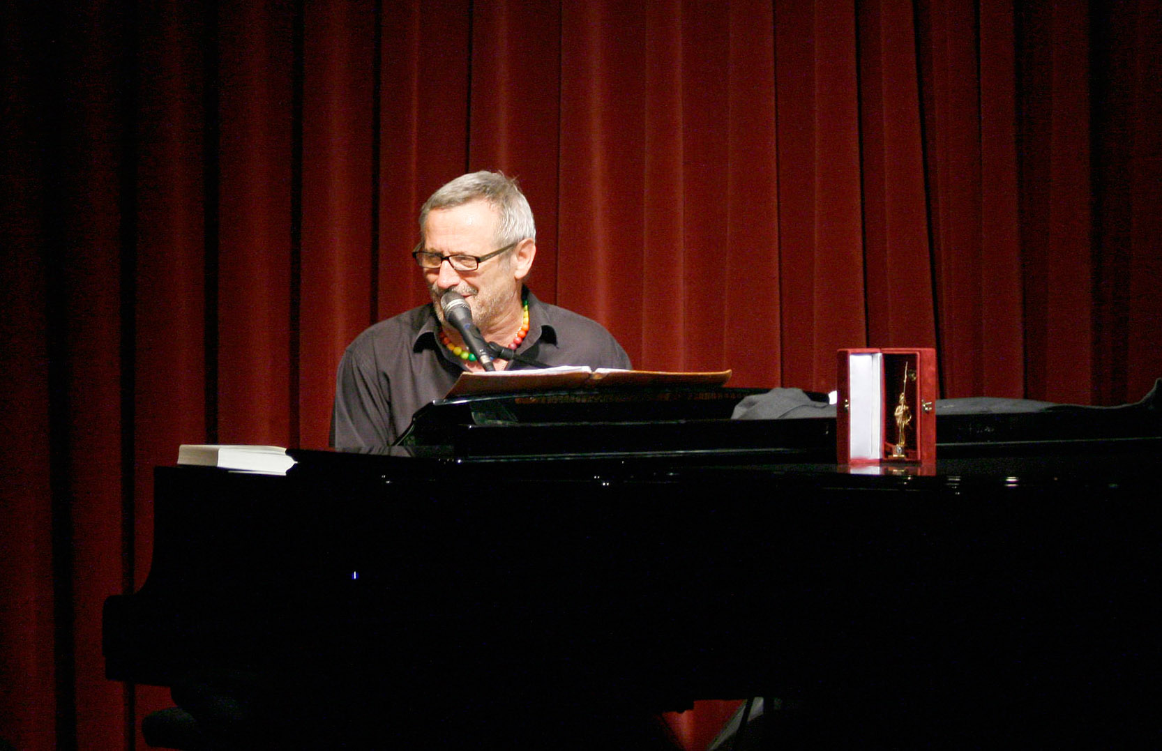 Concert and reading of Konstantin Wecker at the Rote Bar (red bar) of the Volkstheater in Vienna, a charity event for the United Nations Children's Fund (UNICEF)